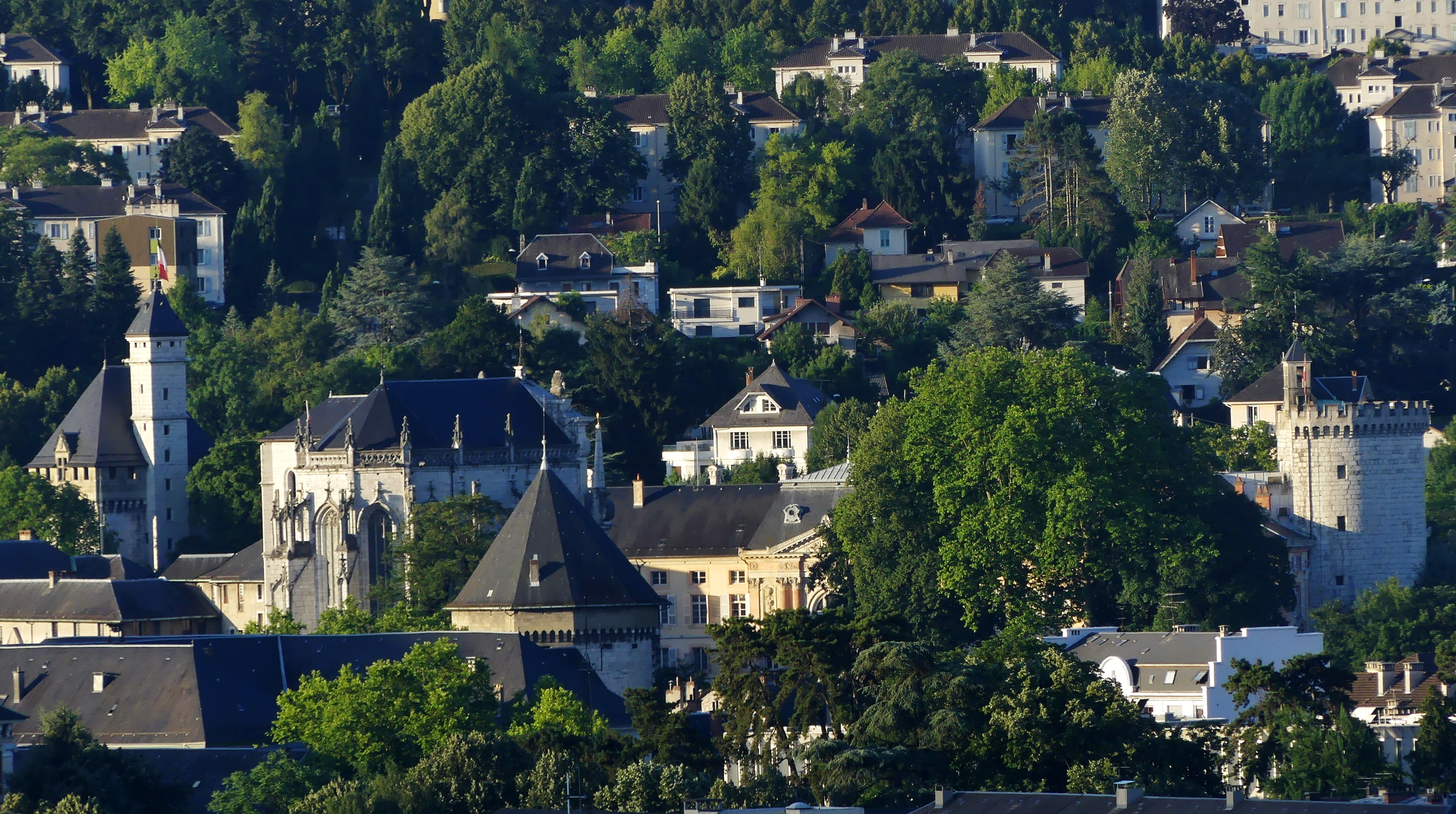 Panoramic sight, in the very first lights of the morning, of the city of Chambéry castle, in Savoie, France.